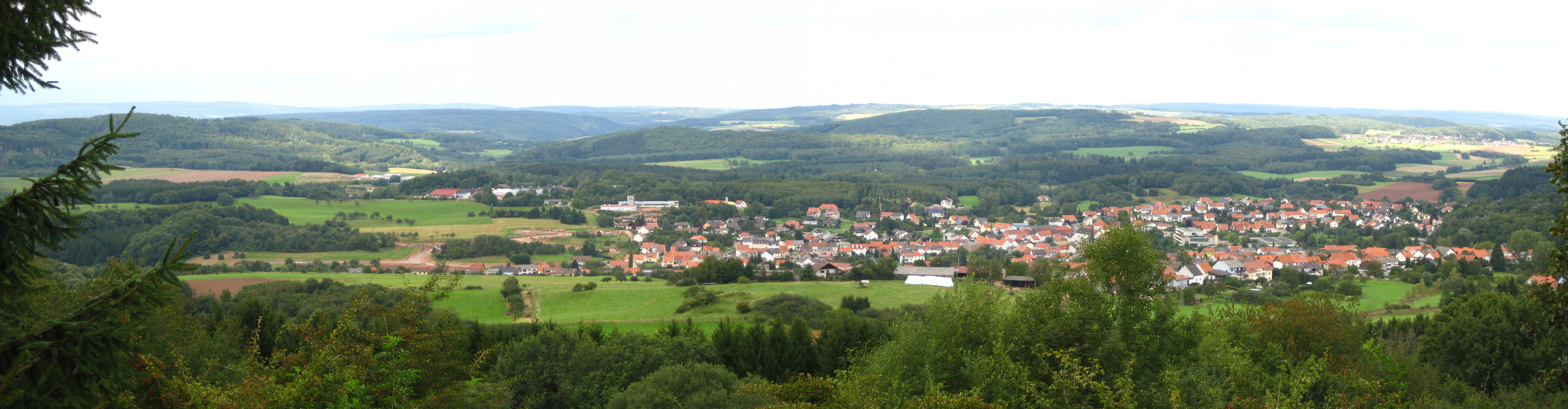 A part of Theley seen from Schaumberg, Saarland, Germany